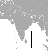 Kelaart's Long-clawed Shrew (Feroculus feroculus) range